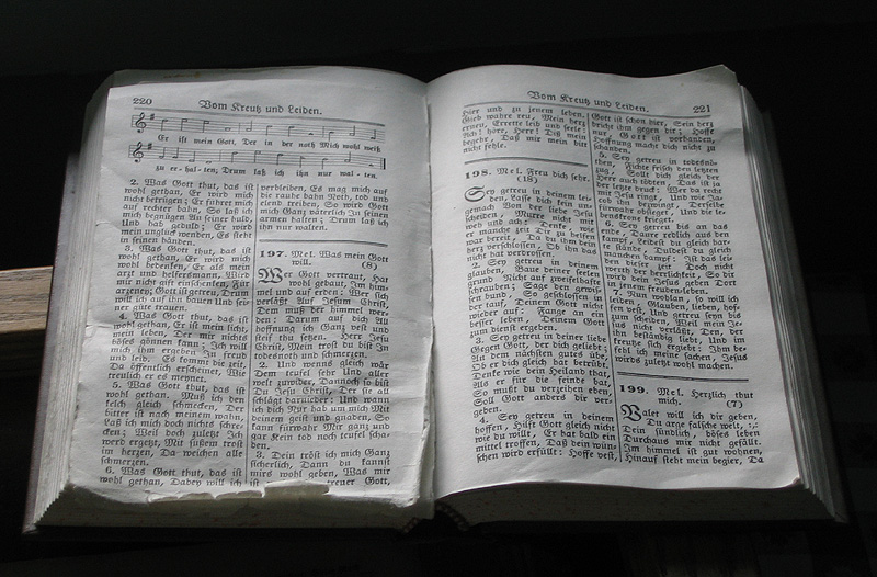 Marco Littel, Picture taken in Strassburg, PA